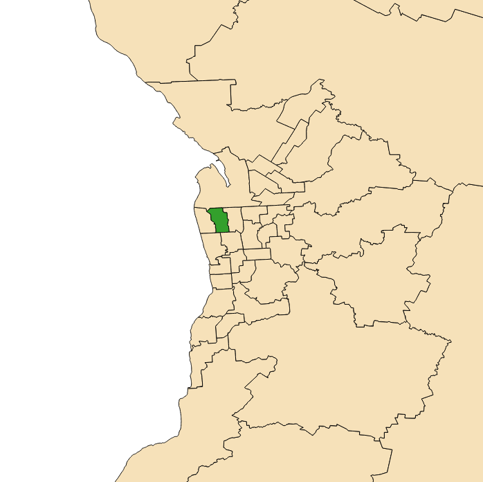 Electoral district 2018 boundaries shown in green